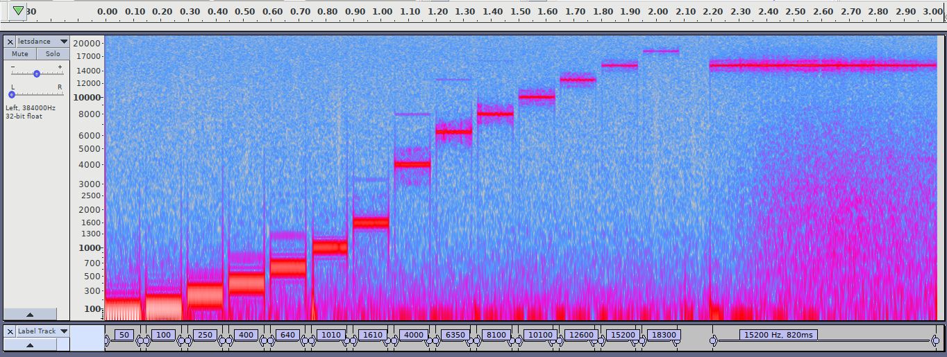 A spectrogram view of the SDR soundburst signal from the end of side 2 of the 1982 cassette "Let's Dance" by David Bowie. Has labels showing timing and frequency of tones. Uses Mel scaling of frequency axis for easier reading by humans. Created for Wikipedia using Audacity.